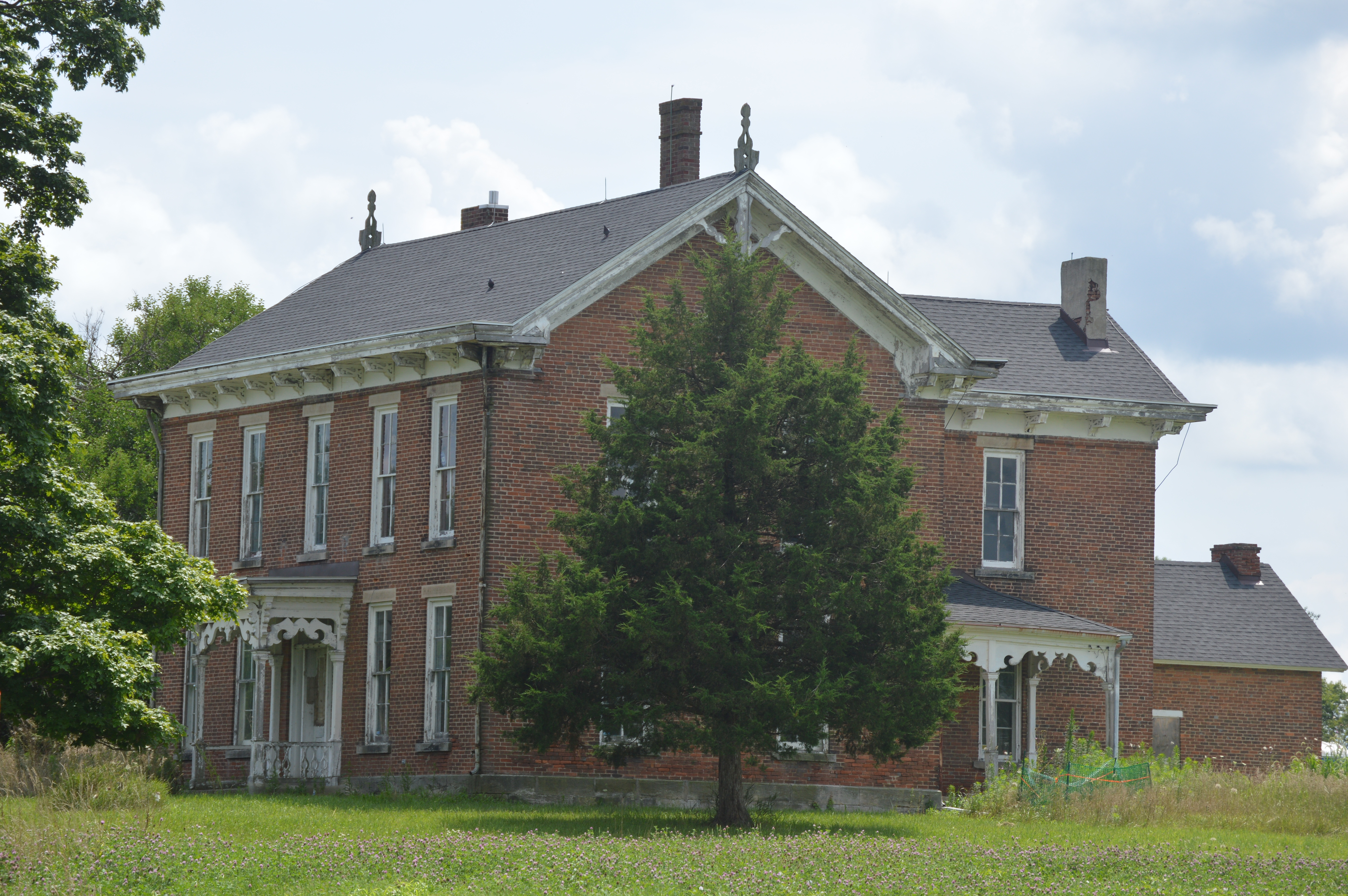 Northern side and front of the house at the Van Reed Farmstead, located at 5322 Old. U.S. Route 41 in Pine Township, Warren County, Indiana, United States. Built in 1856, it is listed on the National Register of Historic Places.